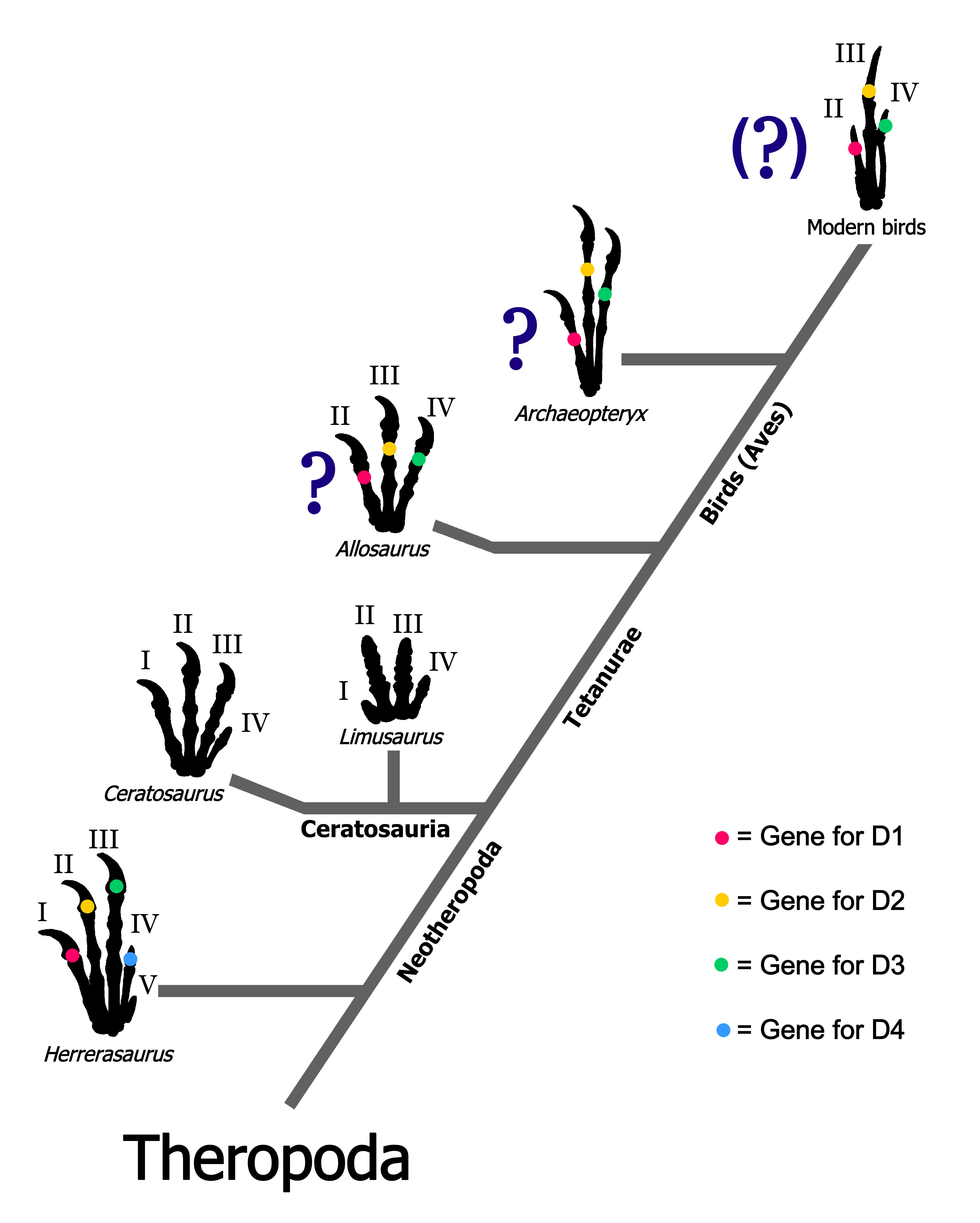 Diagram showing the hands of theropod dinosaurs and their alegged descendants, the birds. Feduccia and other scientists have discovered that bird embryos develop hands with the digits II, III and IV (correspond to the index finger, middle finger and ring finger in humans).[1][2] This runs contrary to the traditional idea that advanced theropod dinosaurs within Tetanurae (regarded as the ancestors to birds) have the digits I, II and III. A theory which has been used to explain this is the Frame shift hypothesis.[3] This hypothesis claim that Tetanurae evolved from an ancestor which had the digits I, II, III and IV. During evolution, digit I was lost (not IV as previously believed). When this happened, the genes coding for how the fingers should look like became refurnished, so the remaining digits II, III and IV came to look like I, II and III. The discovery of the basal ceratosaur Limusaurus are claimed to support the Frame shift hypothesis.[4] References ↑ Hinchliffe (1985). ↑ Nowicki J & Feduccia A (2002), "The hand of birds revealed by early ostrich embryos", Naturwissenschaften 89(9): sid. 391-393. ↑ Gauthier J.A & Wagner G (1999), "1, 2, 3 = 2, 3, 4: A solution to the problem of the homology of the digits in the avian hand", PNAS 96(9): sid. 5111-5116. ↑ Erickson et.al (2009), "A Jurassic ceratosaur from China helps clarify avian digital homologies", Nature 459: sid. 940-944.